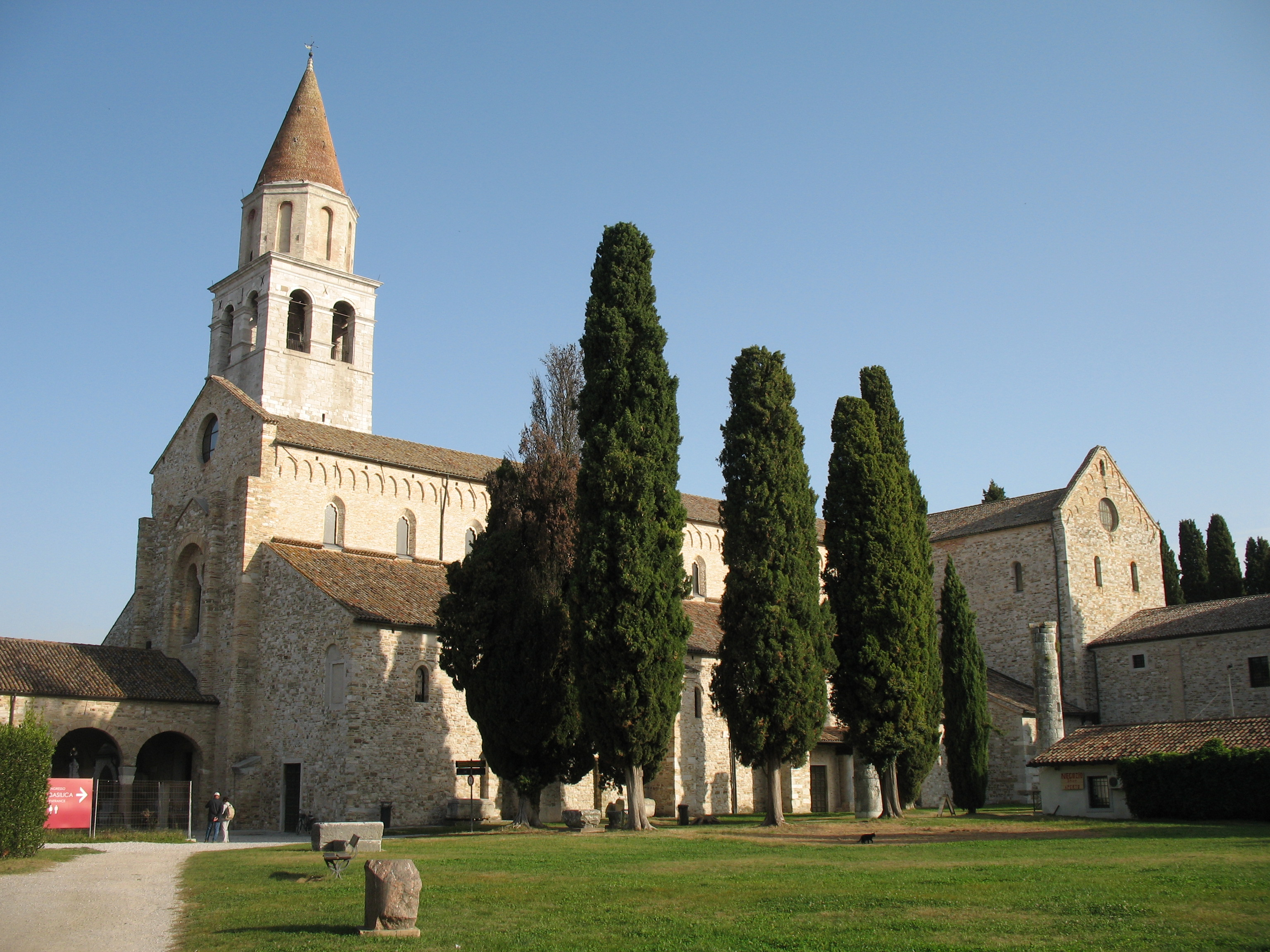 Aquileia Cathedral, Aquileia, Friuli, North Eastern, Italy